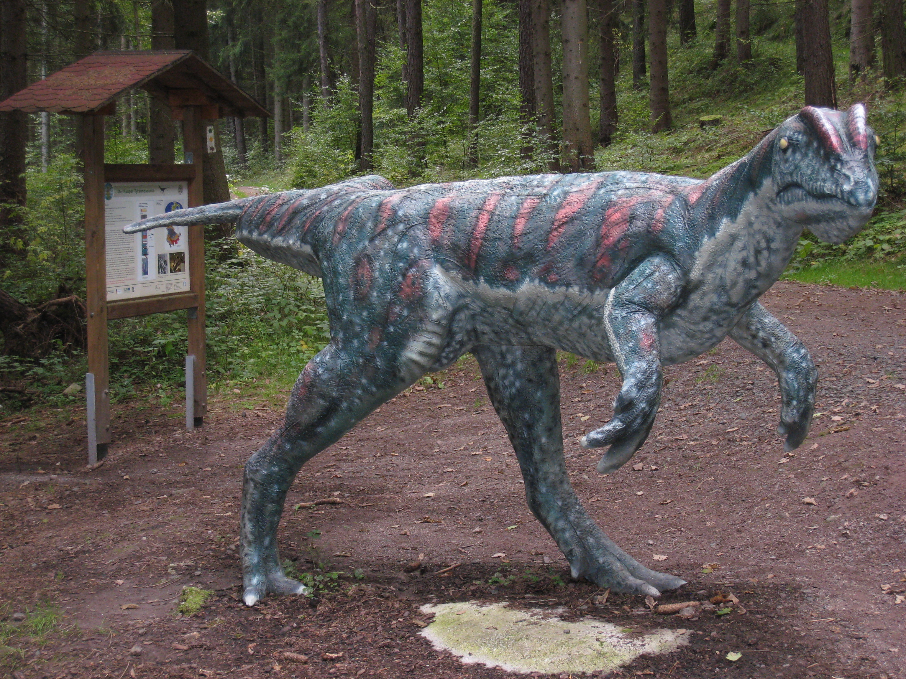 Saurier-Erlebnispfad (Georgenthal) 2